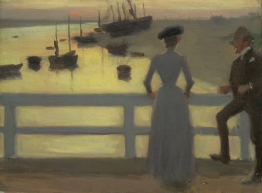 The Bridge